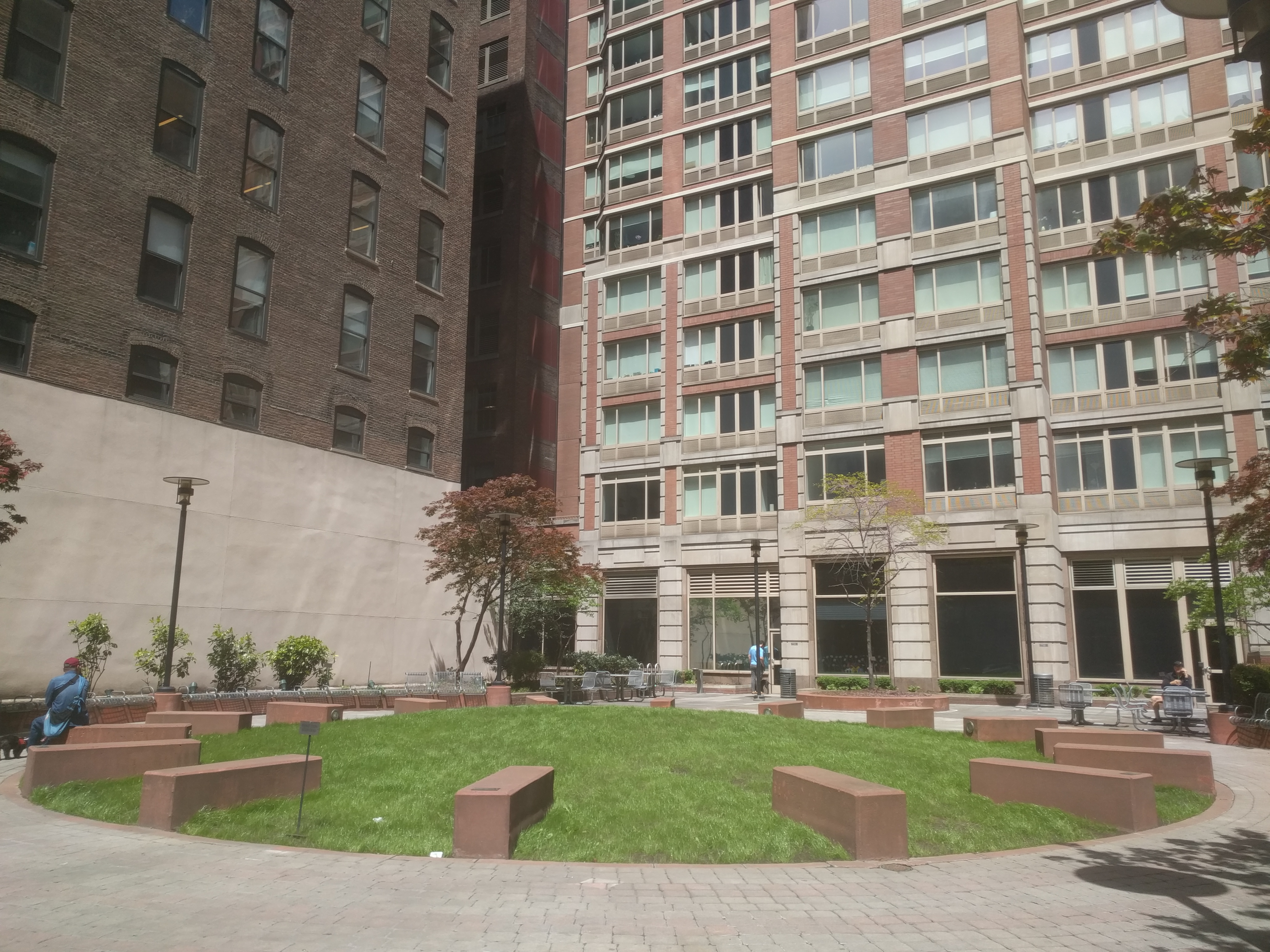 Looking north at site of demolished St. Leo's Church